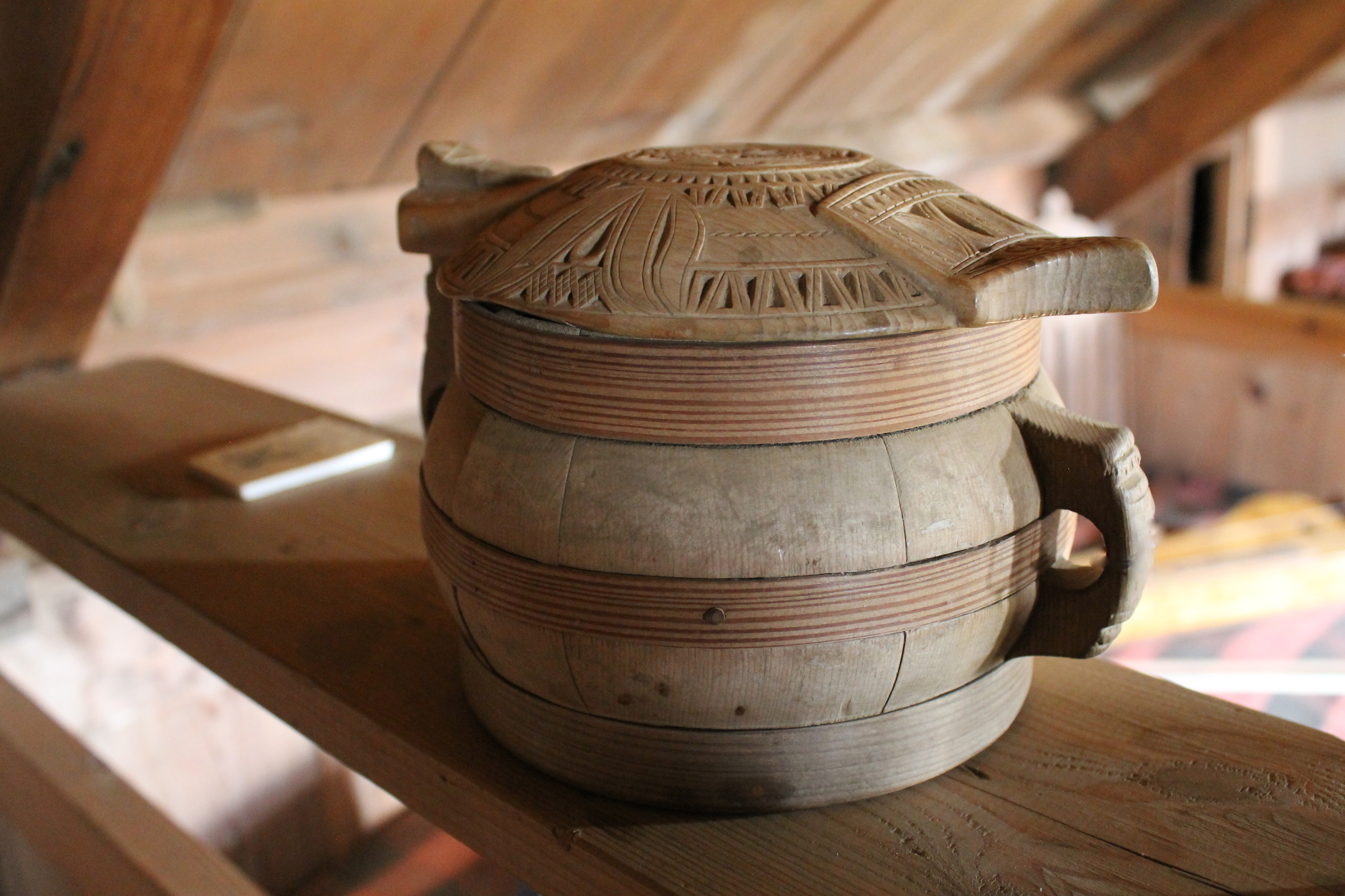 Askur, an Icelandic wooden bowl with a carved lid, traditionally used instead of plates at mealtimes.